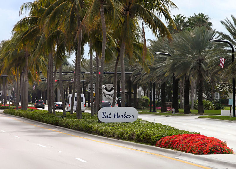 Bal Harbour — Miami Beach, Florida.